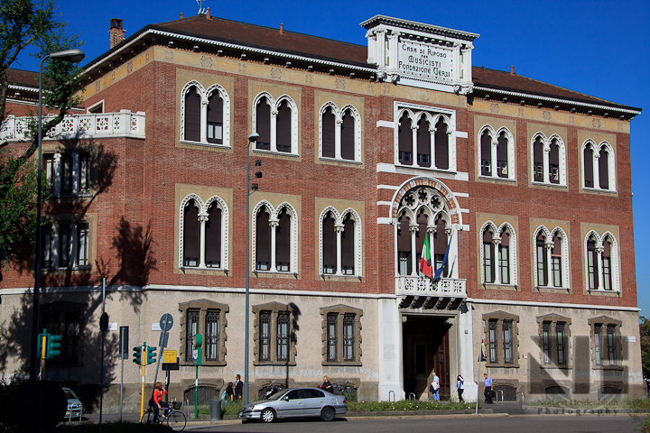 Retirement home for musicians, foundend (and sponsored) by the famous opera composer Giuseppe Verdi